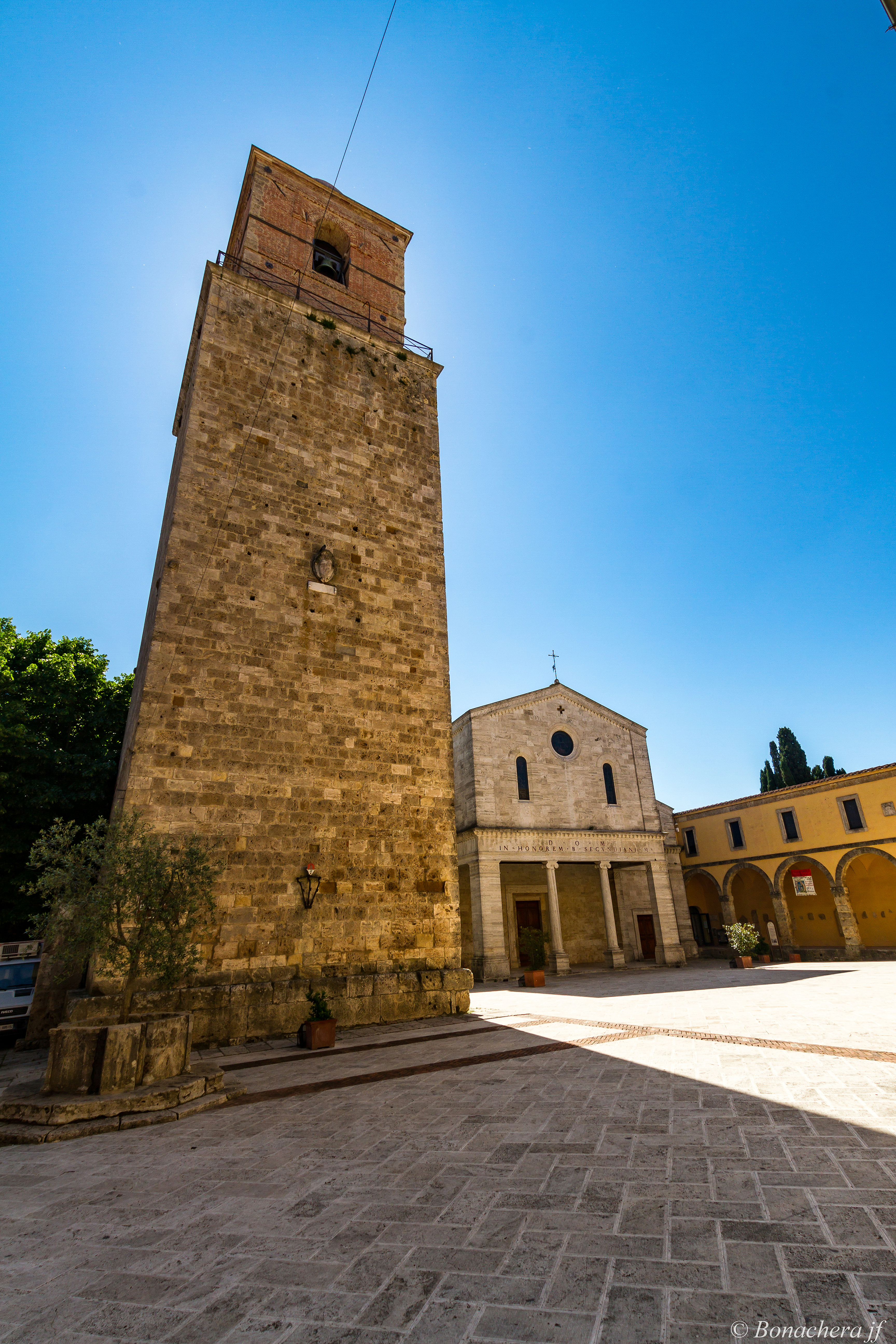 a cisterna romana et le dôme